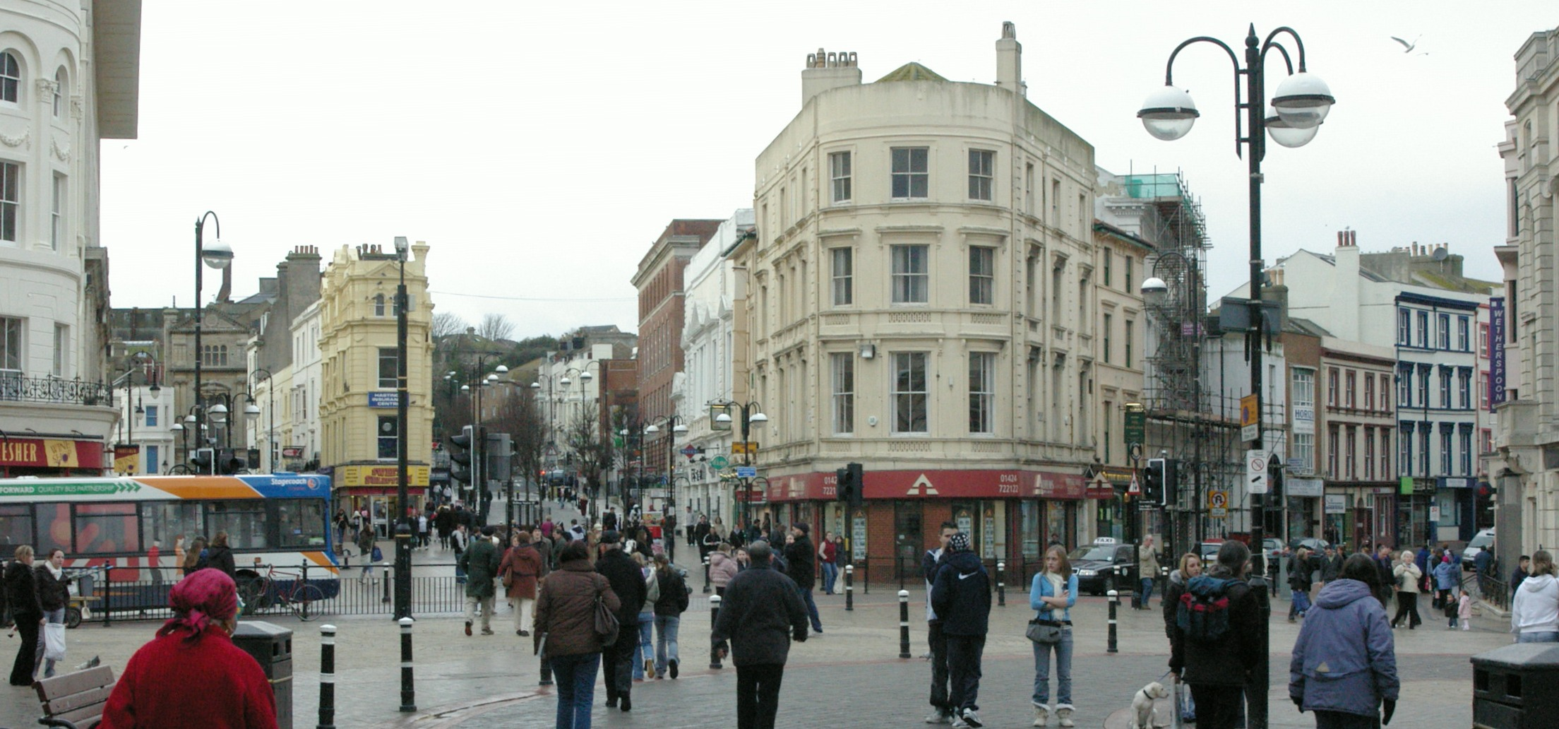 Town centre, Hastings, England.